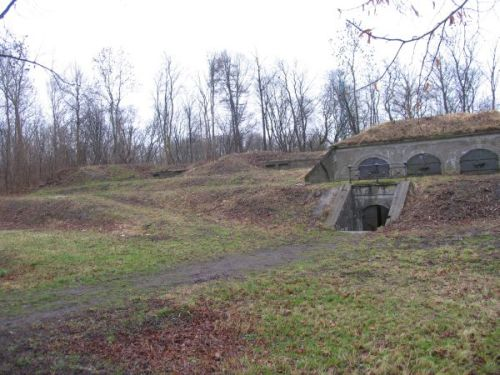 "Paradis Batteri" seen from "Voldgade", Copenhagen, Denmark